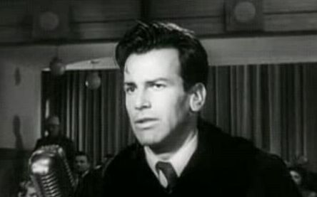 Screenshot of Maximilian Schell from the film Judgment at Nuremberg (1961)